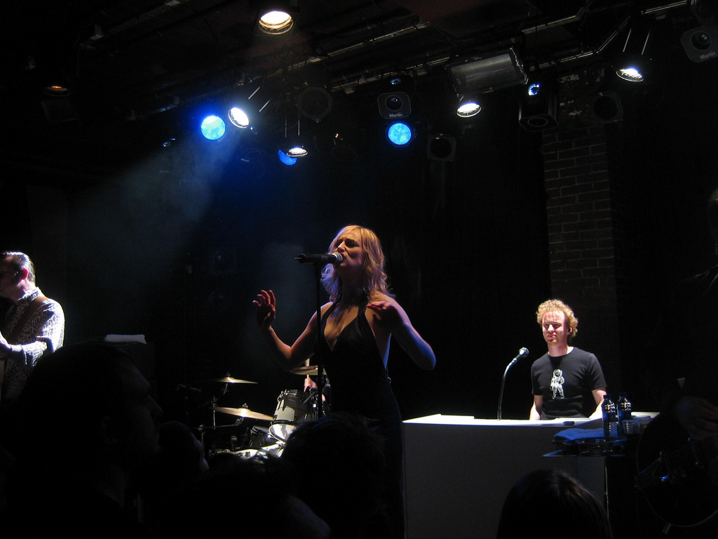 Hoverphonic (with Geike Arnaert) live at La Maroquinerie (Paris). June 5, 2008.